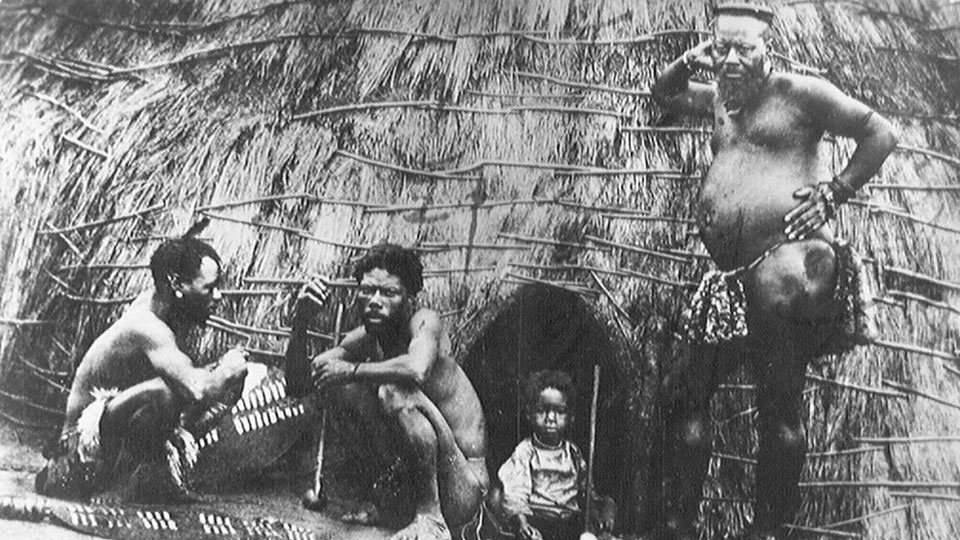 This is a photograph of a postcard published around the time of the Anglo-Zulu War of 1879. The photographer and the publisher are unknown. The original postcard is in the collection of the National Army Museum, UK. Used on Wikimedia/Wikipedia with permission from the NAM. The original postcard carries an incorrect citation which states that the photograph is of the Zulu King Cetshwayo at his homestead. In fact this is one of only two known and authenticated images of the Zulu induna [general] Ntshingwayo kaMahole, who lead the Zulu impis at Isandlwana.